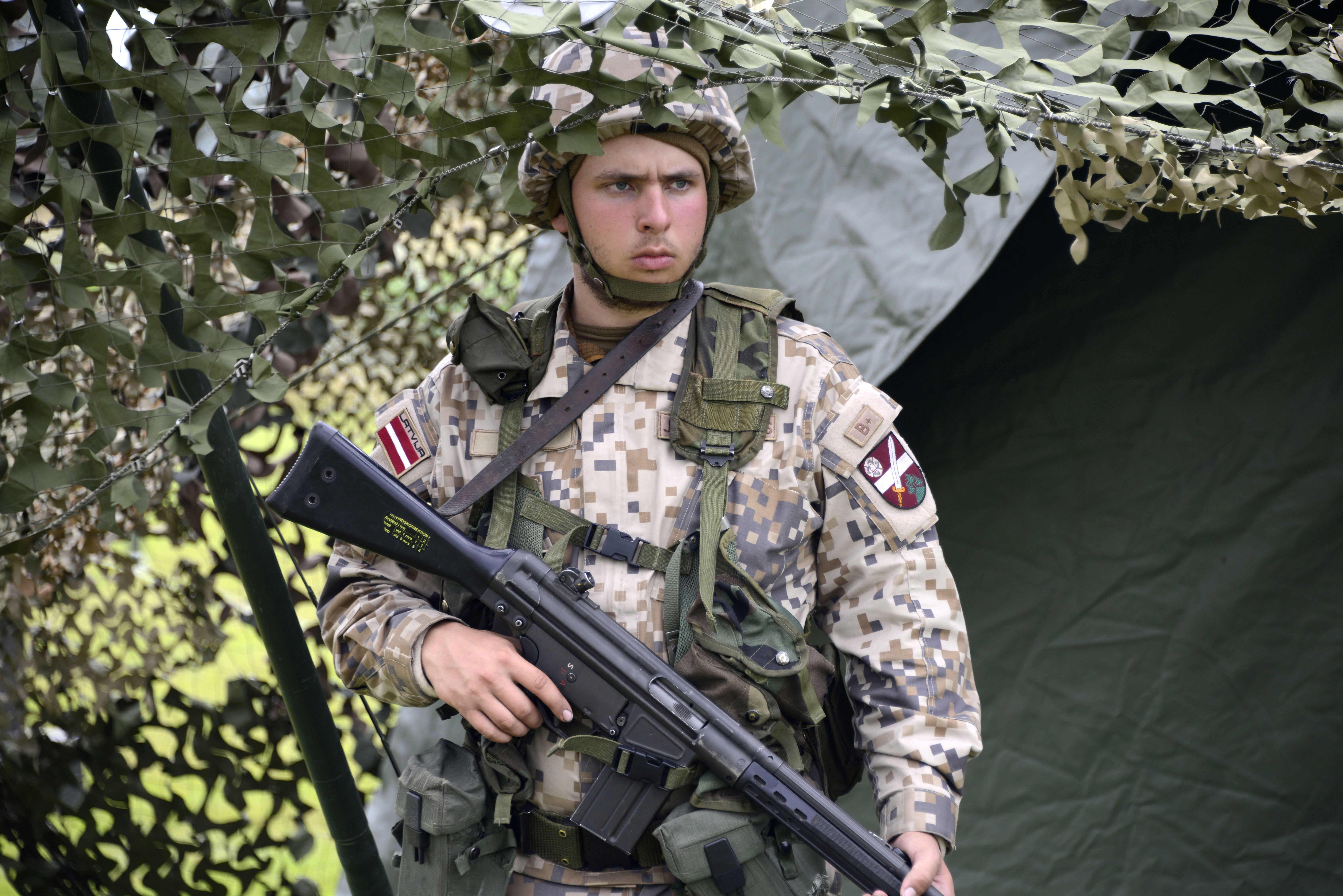 A Zemessardze (Latvian National Guardsman) guards the battalion tactical operations center during the Strong Guard 2016 (Zobens 2016) distinguished visitor's day near Tukums, Latvia, Aug.14, 2016. Soldiers of the 177th Military Police Brigade, Michigan National Guard, and Lima Company, 3rd Battalion, 25th Marines, are participating with the Zemessardzes in Strong Guard, an annual Latvian-led training exercise. Strong Guard 2016 demonstrates the continued U.S. commitment to the security of their NATO Allies in the light of increased tension in Eastern Europe. (U.S. Army photo by Staff Sgt. Kimberly Bratic/Released)